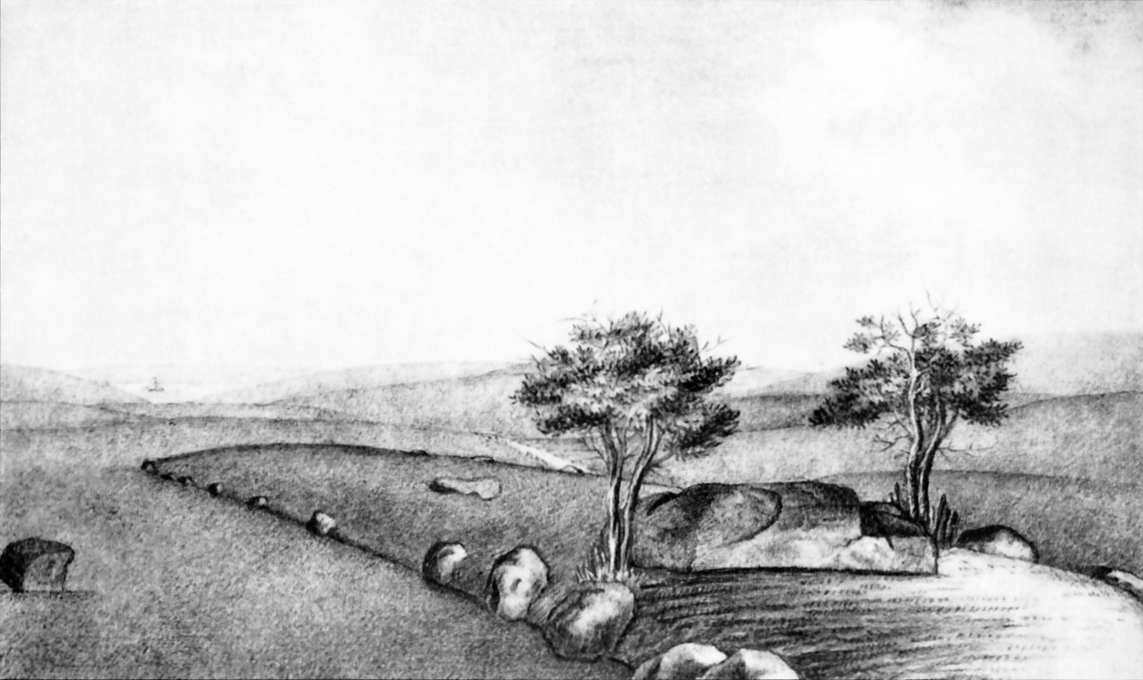 Drawing of the Dolmen near Bockholm.